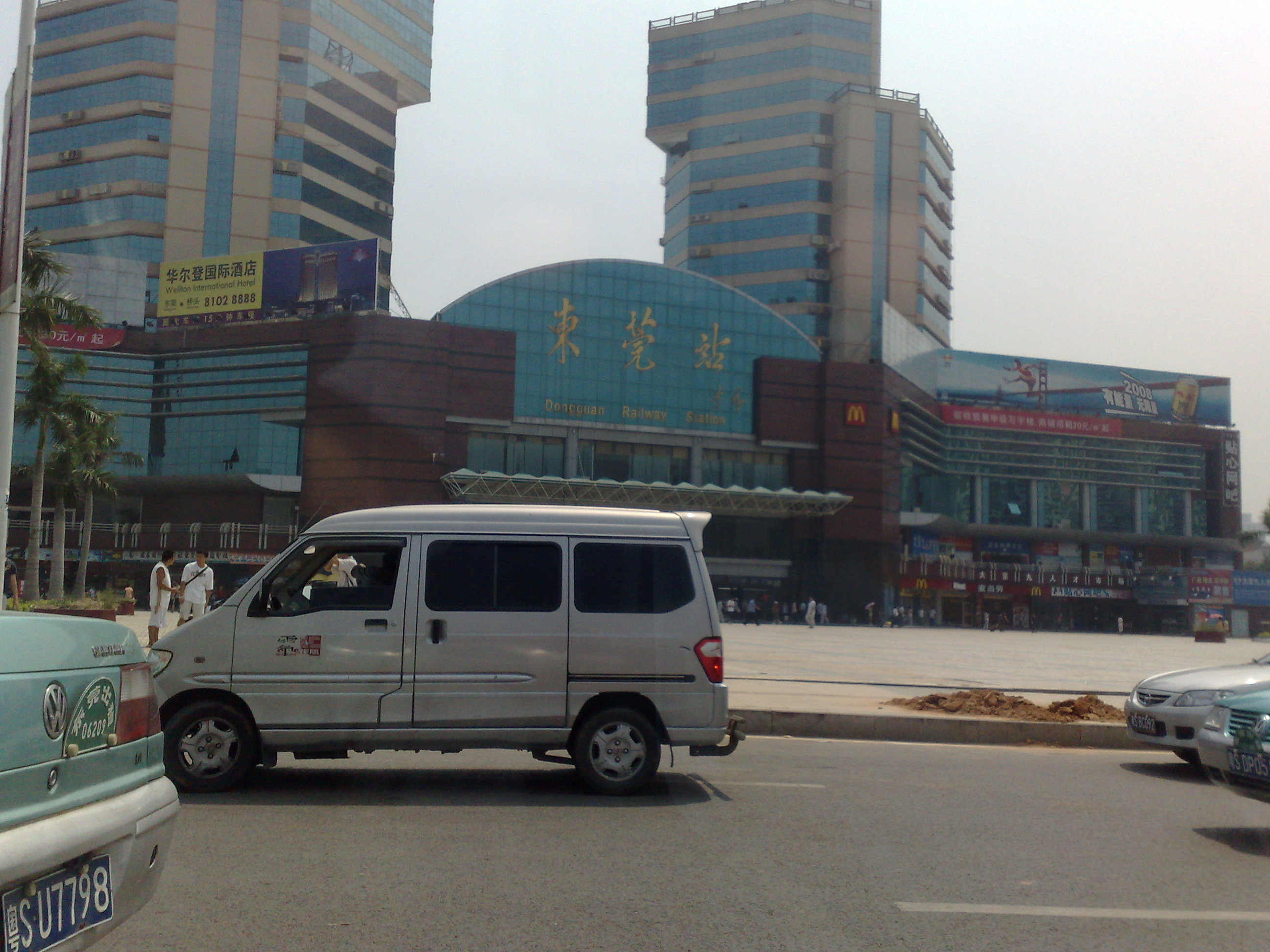 Main building of Dongguan Railway Station